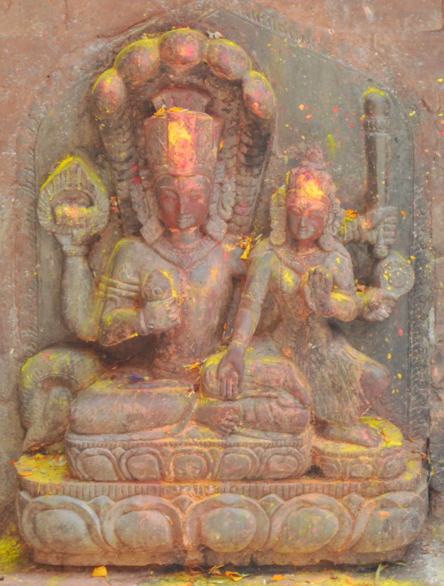 LakshmiNarayan Statue, It is usually referring to Vishnu, also known as Narayan, when he is with his consort, Lakshmi, in his abode, Vaikuntha. Lakshmi is depicted as standing next to a dark-skinned Vishnu, who is holding a conch, mace, lotus and the Sudarshana Chakra.